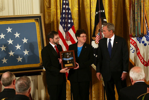 President George W. Bush shares a moment with Tom and Romayne McGinnis, of Knox, Pennsylvania, after presenting them the Congressional Medal of Honor in honor of their son, Private First Class Ross A. McGinnis, who was honored posthumously Monday, June 2, 2008, in the East Room of the White House.